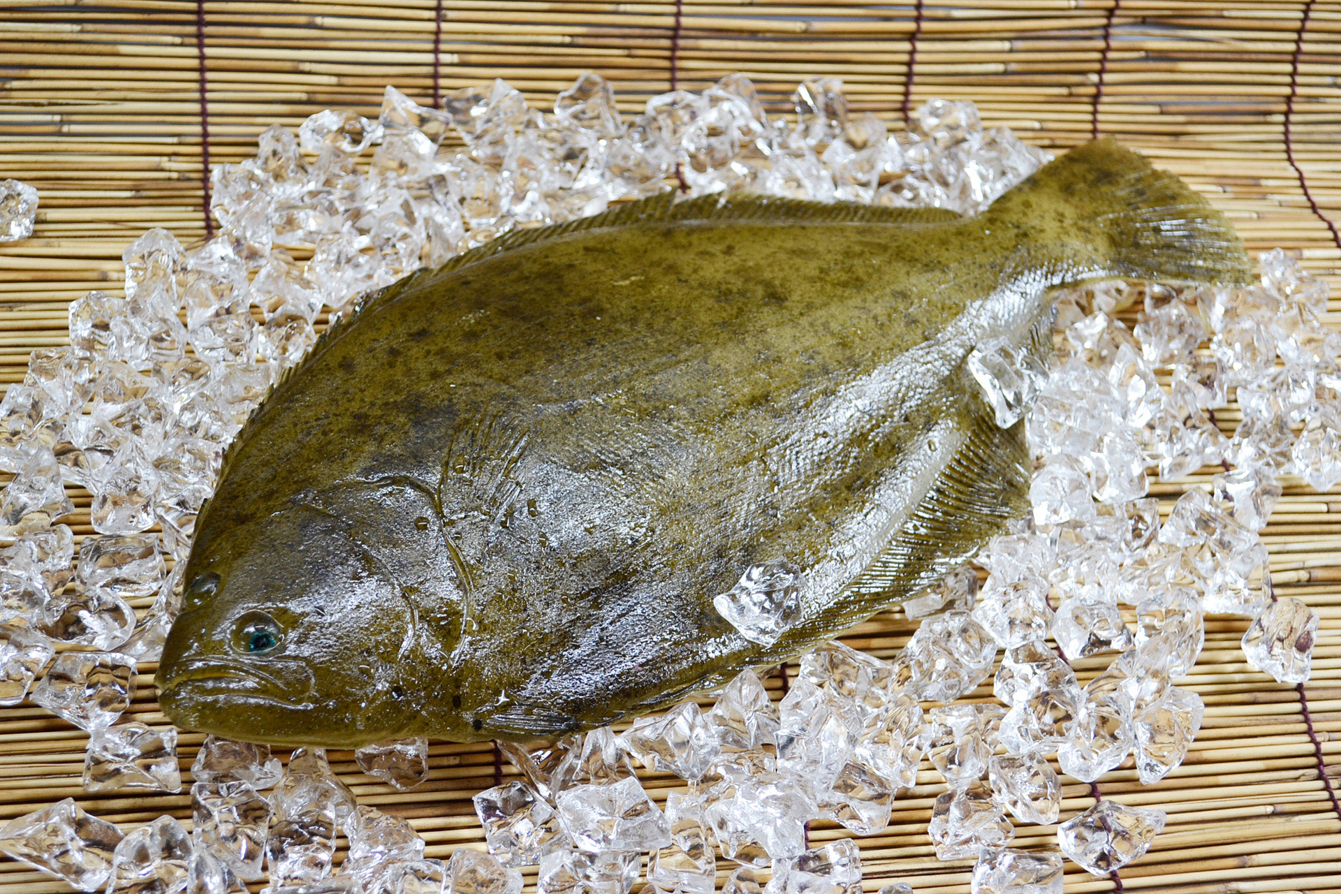 flatfish (left‐eyed flounder) Keywords: flatfish, left‐eyed, flounder, plaice, fish, food, fake, food, ice Downloaded: 9 times Rating: 6 out of 10 6.0/10 Photo Download: Simple Download - Click on image to enlarge it. Right-click on image and select "Save Picture As..." Flatfish (left‐eyed Flounder) Photo License: This image is public domain. You may use this picture for any purpose, including commercial. If you do use it, please consider linking back to us. If you are going to redistribute this image online, a hyperlink to this particular page is mandatory. HTML: Flatfish (left‐eyed Flounder) by yamada taro Note: If you intend to use an image you find here for commercial use, please be aware that some photos do require a model or property release. Pictures featuring products should be used with care.